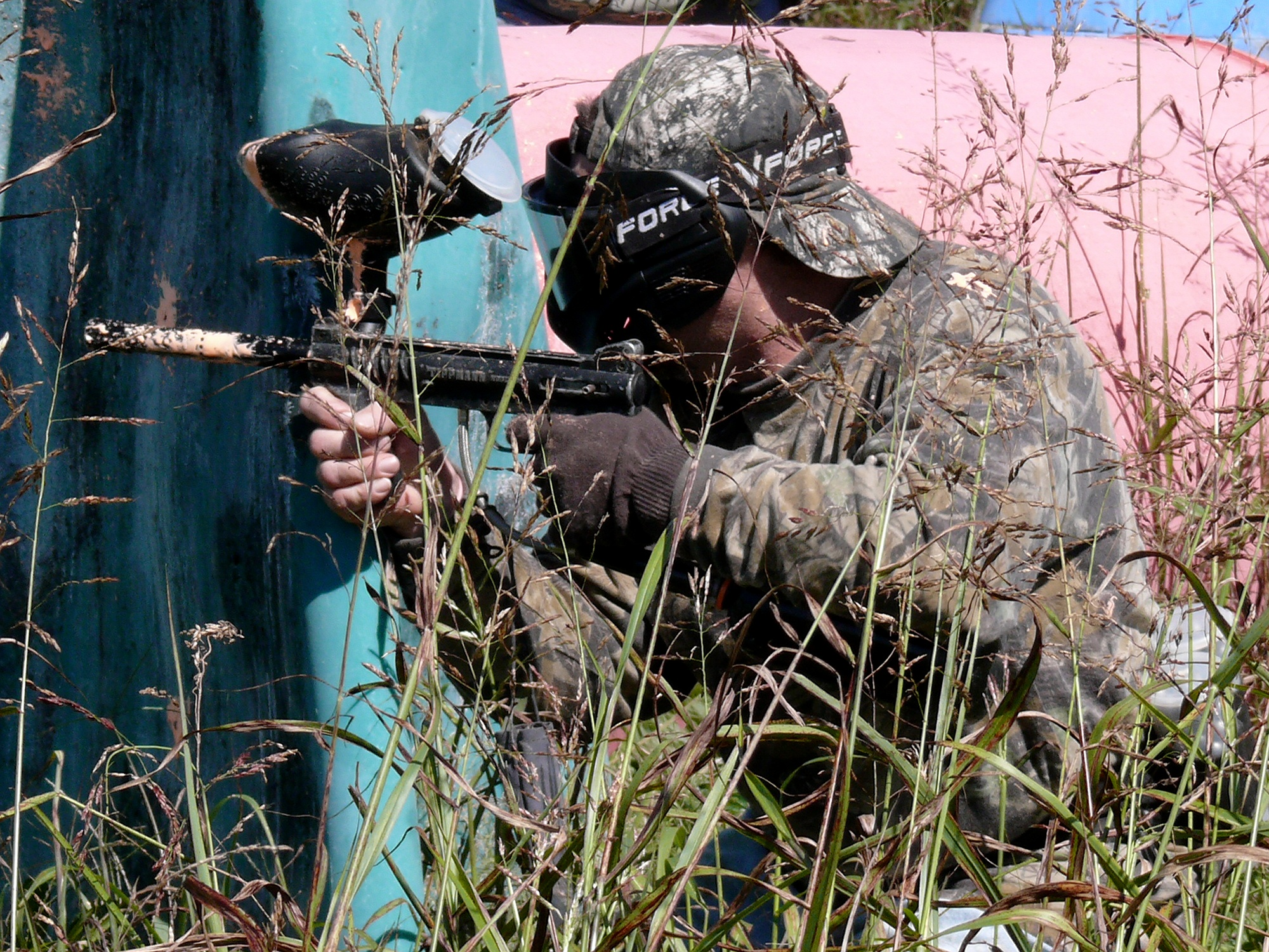 A paintball player takes aim from behind cover during a speedball match at the Command Decisions Paintball facility. Photo taken with a Panasonic Lumix DMC-FZ50 in Alexander County, NC, USA.